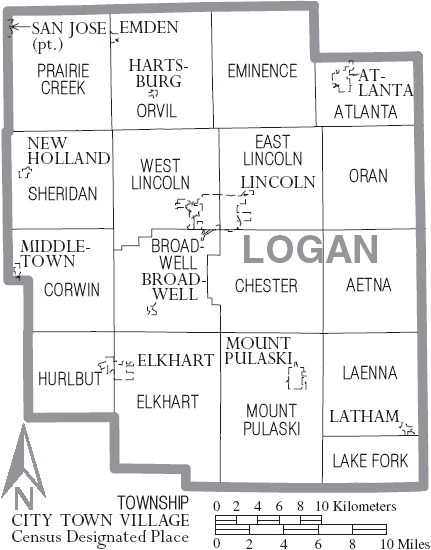 Map of Logan County, Illinois, United States with township and municipal boundaries